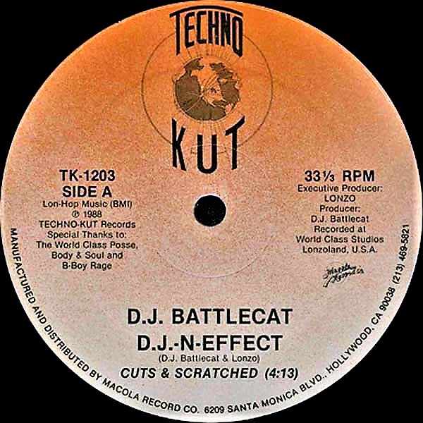 Side A of D.J. Battlecat 12-inch single "D.J.-N-Effect". This record released in 1988 on Techno Kut Records.